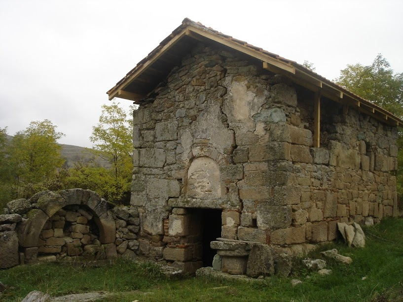 Medieval church of St. George on the archeological site supposedly of the ancient city Tranupara, near Konjuh, Macedonia